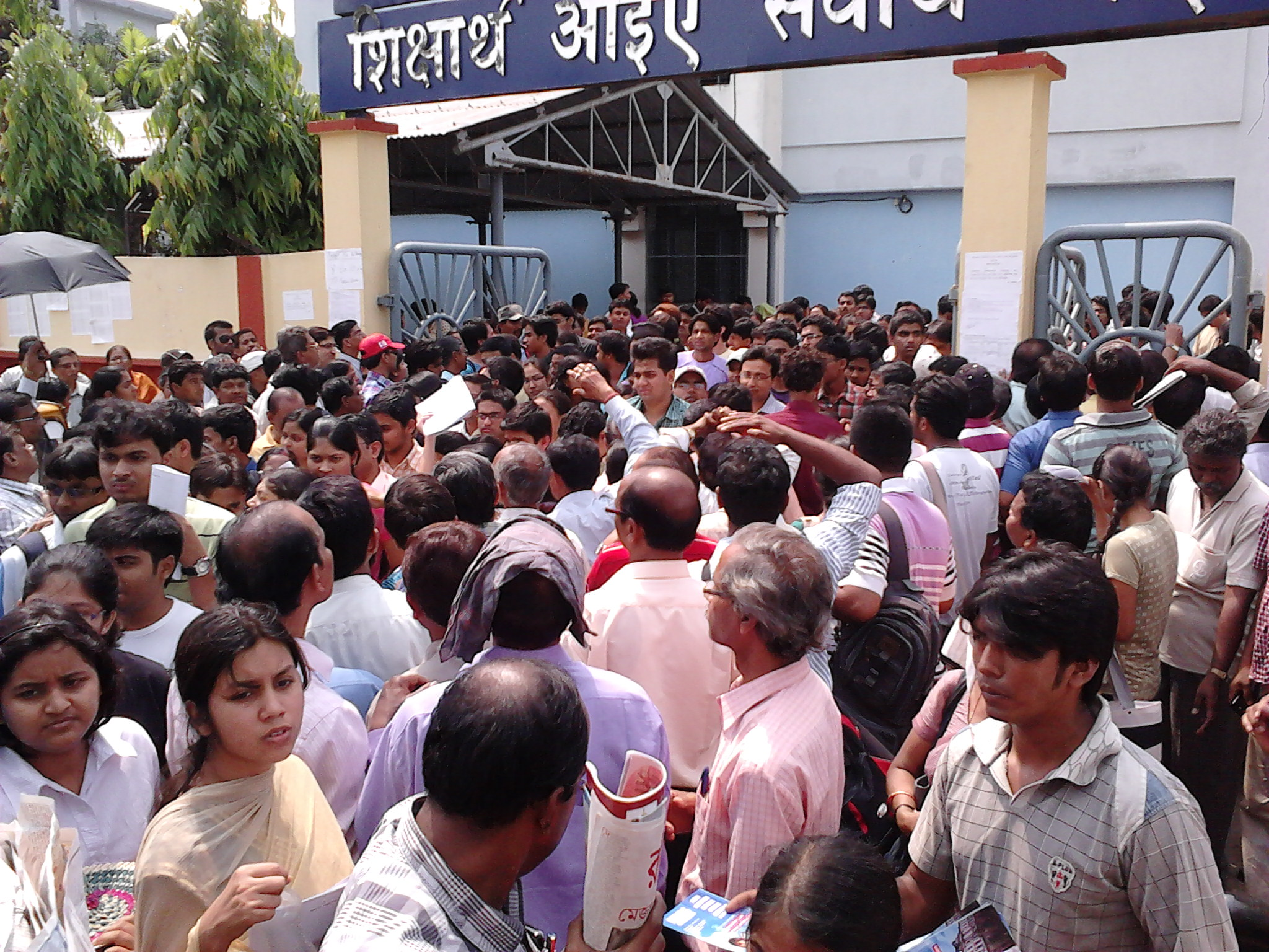 The preliminary examination of the All India Pre-Medical/Pre-Dental Entrance Examination (AIPMT) 2011, was held on 3 April 2011, throughout India, it was conducted by the Central Board Of Secondary Education (CBSE), Delhi. (Photographed using Motorola EX115 mobile phone).